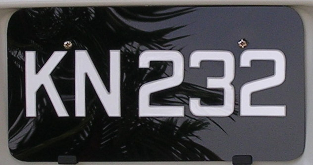 A photograph of the rear of a car in Brunei. Brunei Car License Plate. Own work.